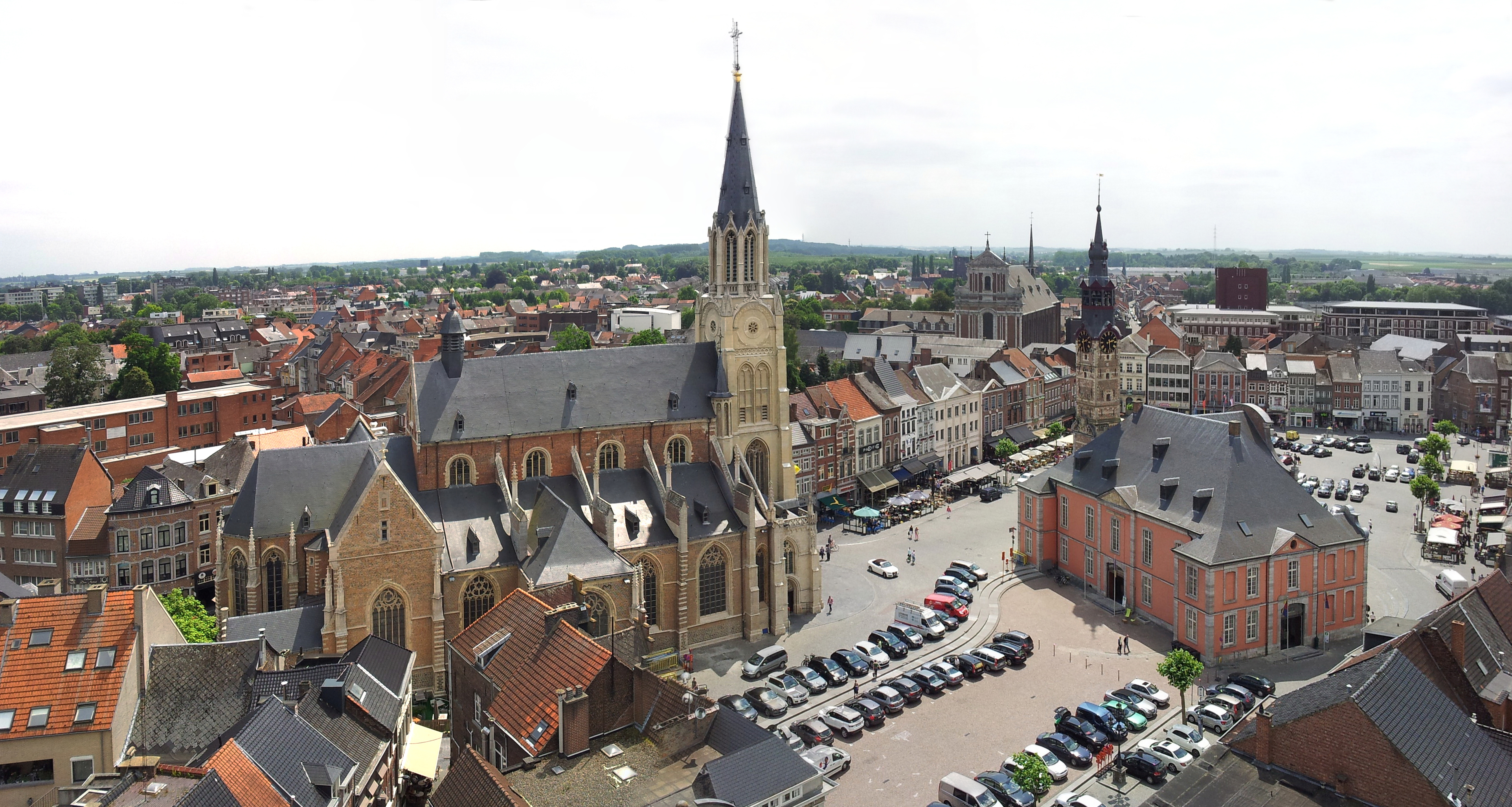 View towards the Southeast from the tower of the demolished church of the former Benedictine abbey in Sint-Truiden, Belgium. In the centre the Grote Markt, the main square in Sint-Truiden, with the church of Our Lady and the town hall.